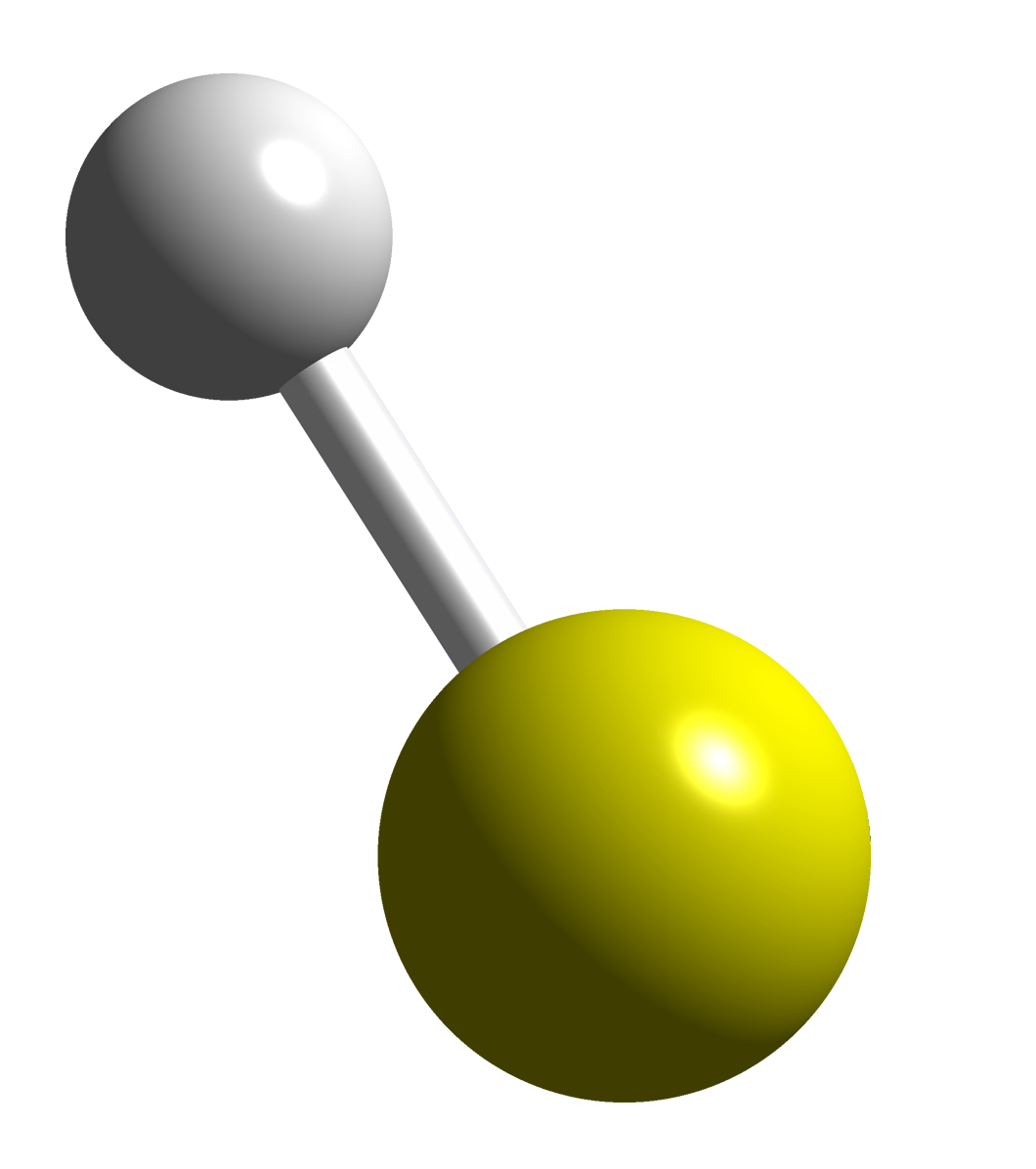 Sulfanyl HS radical in stick and ball diagram